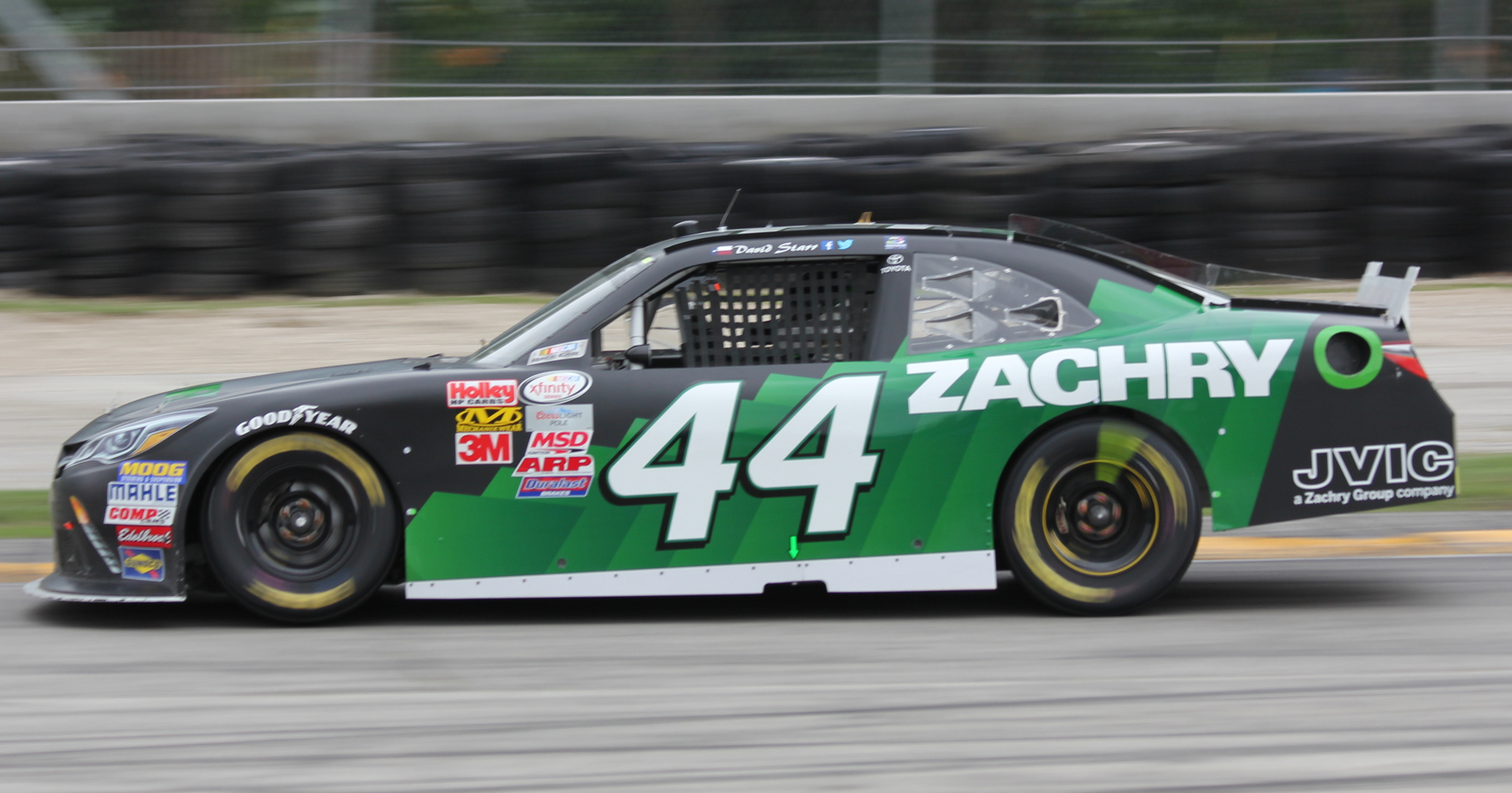 The NASCAR Xfinity Series car of David Starr turning left in Turn 6 at Road America.